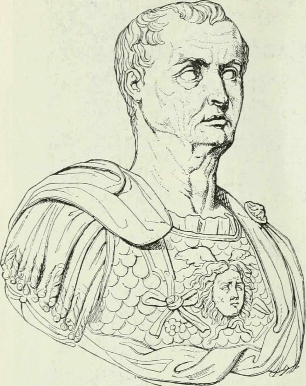 Title: A day in ancient Rome; being a revision of Lohr's "Aus dem alten Rom", with numerous illustrations, by Edgar S. Shumway .. Year: 1885 (1880s) Authors: Lohr, Fr Shumway, Edgar Solomon, ed. (and) tr Subjects: Rome -- Antiquities Rome (city) -- Description and travel Publisher: New York, Chautauqua press Text Appearing Before Image: people jest-ingly called the em-perors tutors. The Emperor Galbawas to have been mur-dered in his own house,and yet Otho feared thewatchfulness of thebody-guards ; so, on theday on which he in-tended, with the aid ofthe dissatisfied praeto-rians, to execute thecotip dUtat, he had thefalse report spread thatthe disorders in thecamps were over, andhe himself killed. Hav-ing thus induced the^^- credulous Galba to go down to the forum without trustworthy protection, he had himsurprised and killed. Otho himself had affectionately greeted the emperor in themorning, and had then, as Tacitus says, under the pretense ofhaving, with several experts, to look at a house offered for sale,hastened away through the Palace of Tiberius into the Velabrum,thence to the Golden Milestone by the Temple of Saturn—(/rrDomuni Tiberianam in Vclabriwi^ inde ad inilliarhim aiircunt subAedem Saturniy) Suetonius affirms that he made his way throughthe rear portion of the palatium. Frorr a comparison of these two Text Appearing After Image: OTHO AND VITELLIUS. 79